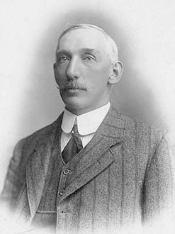 Image of Hugh Trumble from the State Library of NSW, accessed at: Public Domain. This image is of Australian origin and is now in the public domain because its term of copyright has expired. According to the Australian Copyright Council (ACC), ACC Information Sheet G023v17 (Duration of copyright) (August 2014).3 Type of materialCopyright has expired if … A Photographs or other works published anonymously, under a pseudonym or the creator is unknown:taken or published prior to 1 January 1955BPhotographs (except A):taken prior to 1 January 1955CArtistic works (except A & B):the creator died before 1 January 1955DPublished editions1 (except A & B):first published more than 25 years agoECommonwealth, State or Territory owned2 photographs and engravings:taken or published more than 50 years ago 1 means the typographical arrangement and layout of a published work. eg. newsprint. 2 owned means where a government is the copyright owner as well as would have owned copyright but reached some other agreement with the creator. 3 Copyright Amendment (Disability Access and Other Measures) Bill 2017 (Australian Government) When using this template, please provide information of where the image was first published and who created it.